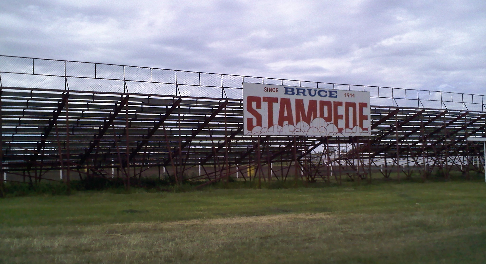 Front of the Bruce Stampede grounds at Bruce, Alberta.